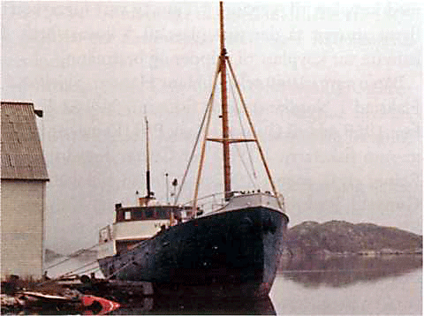 The cargo ship "Vebo" at home in Tjørvåg in 1982